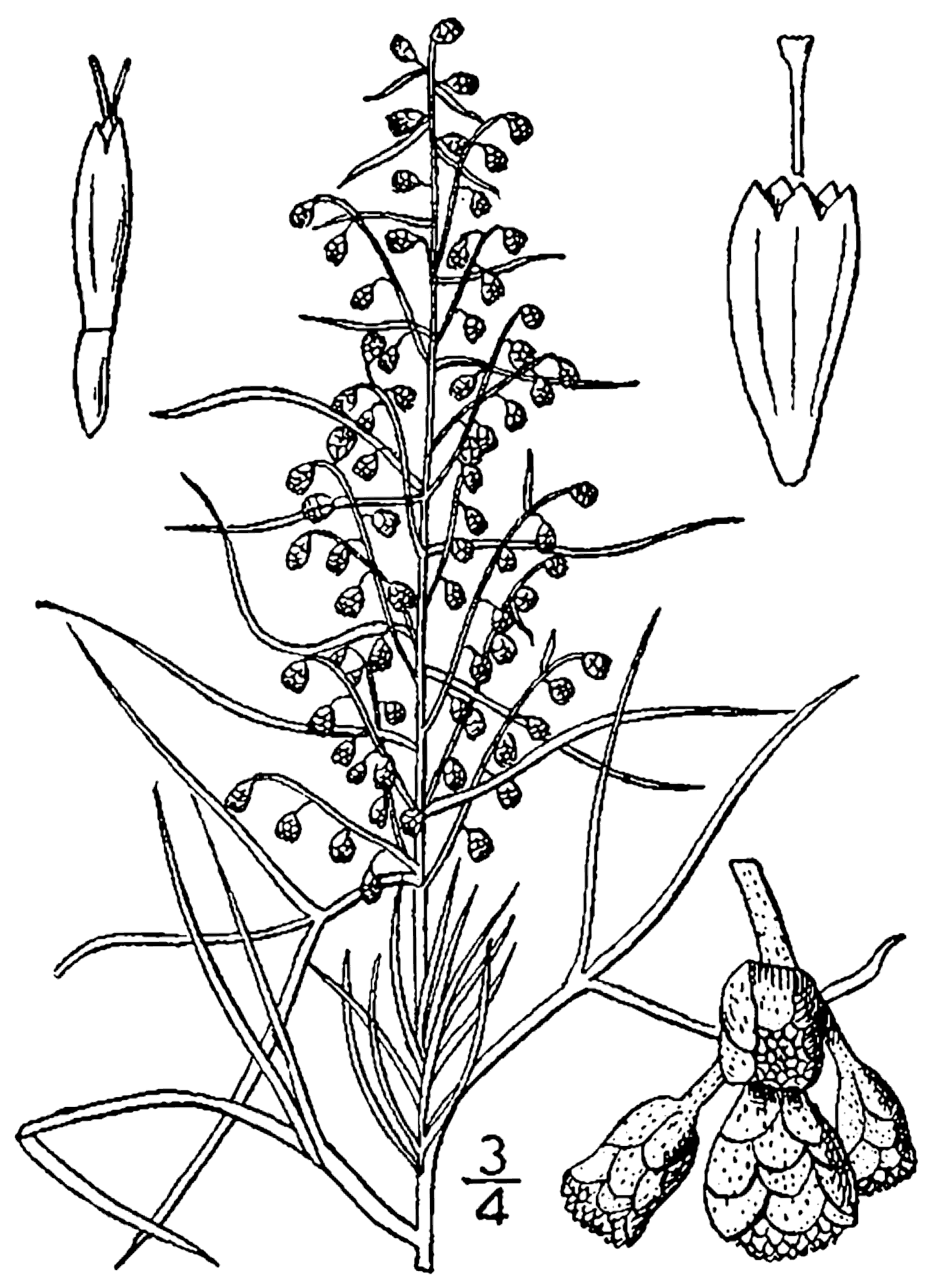 Artemisia filifolia Torr. - sand sagebrush